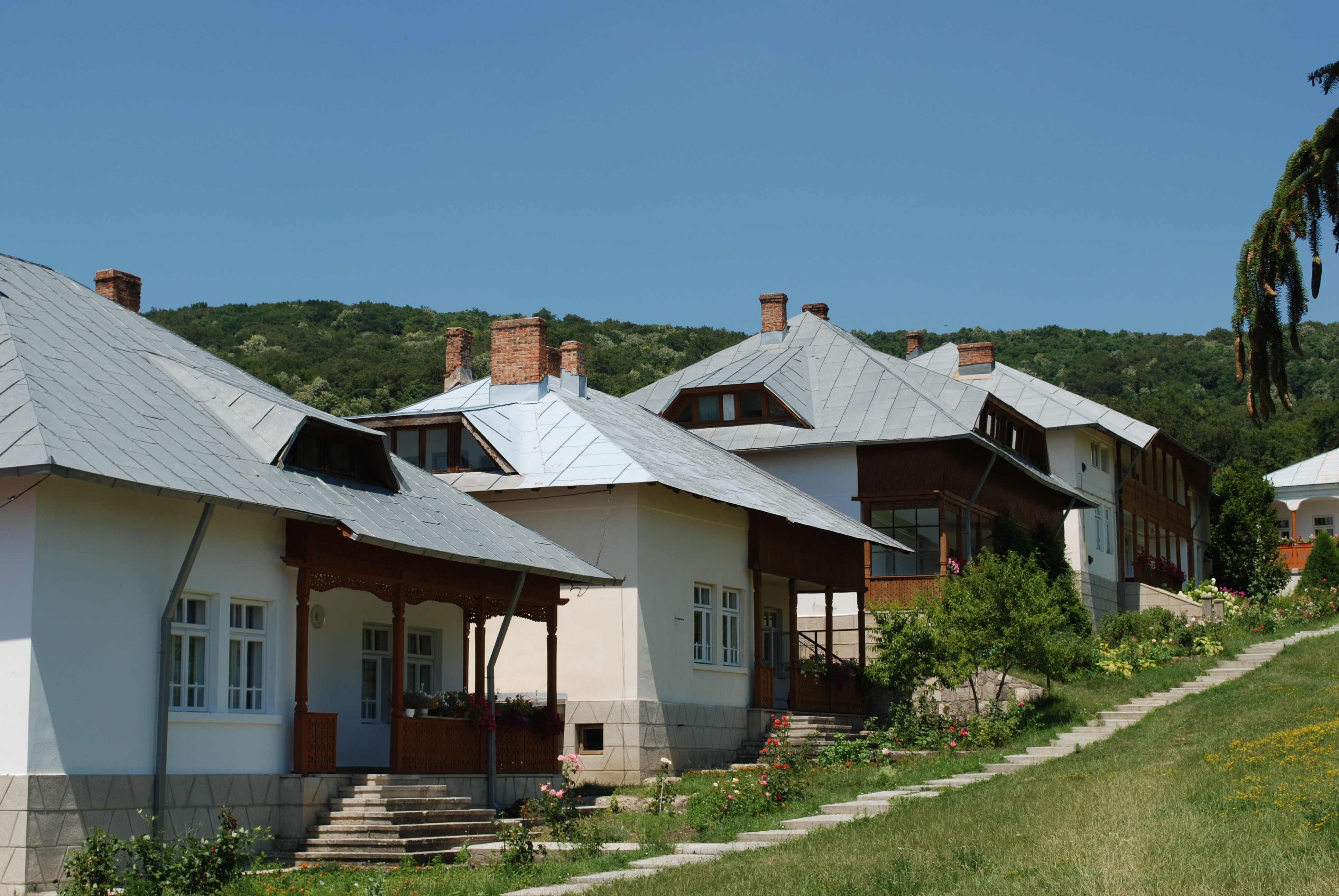 Monks' houses in Ciolanu monastery, Buzău County, Romania